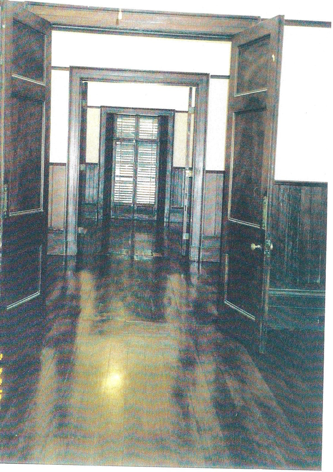 Interior doors and hallways of the Tho Homestead Georges Hall NSW